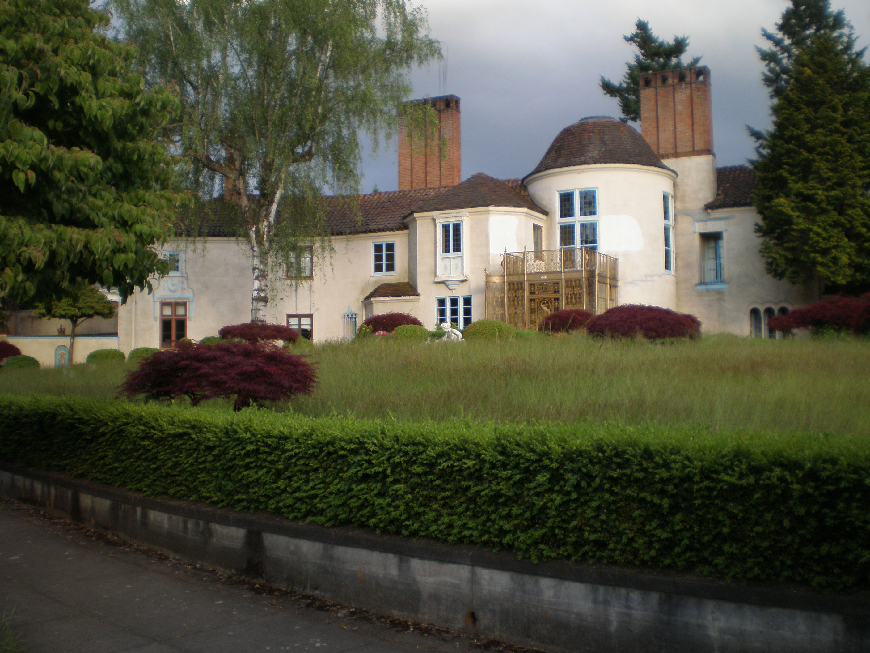 Bitar Mansion (also known as the Harry A. Green House) in southeast Portland, Oregon in June 2011